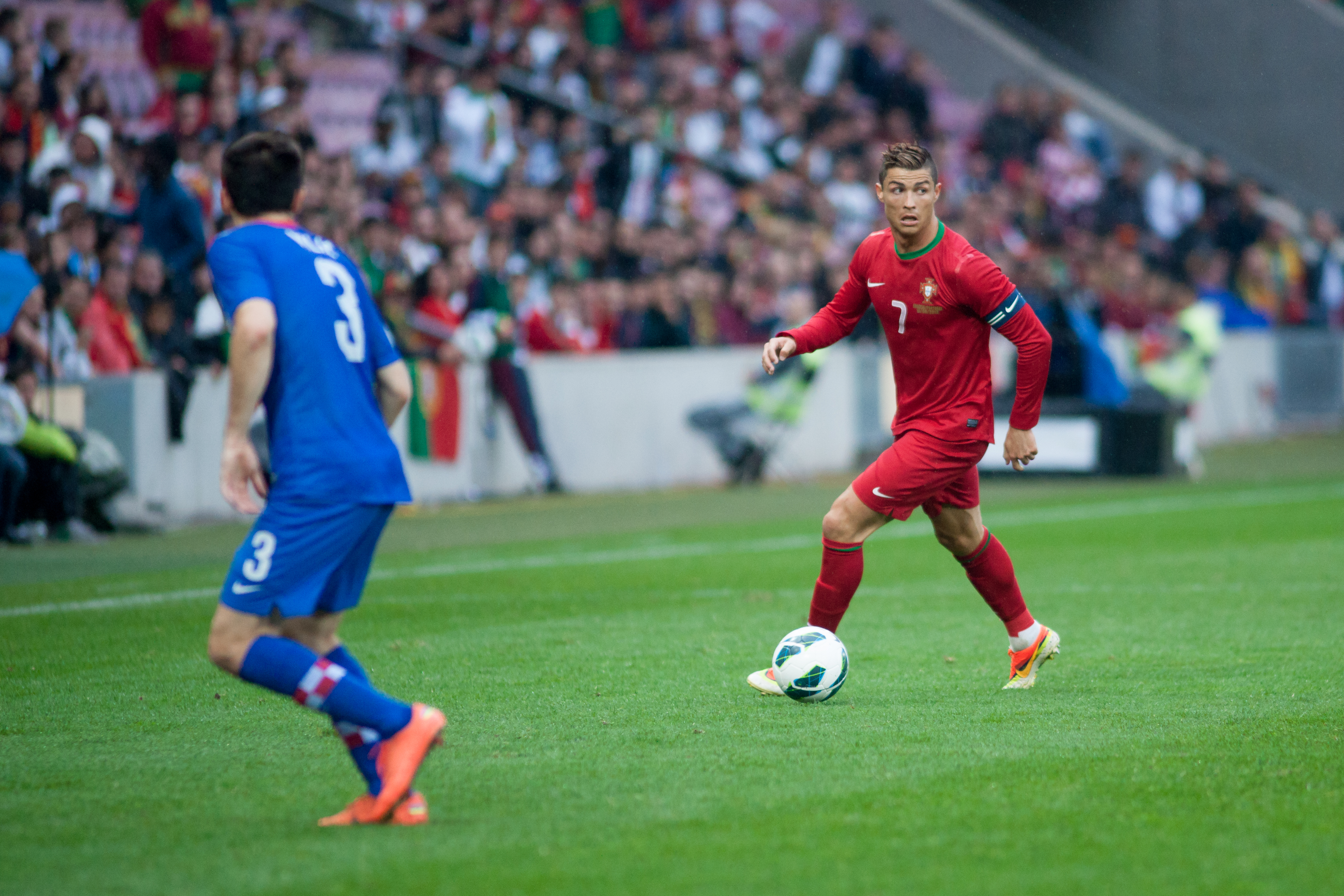 Croatia vs. Portugal, 10th June 2013